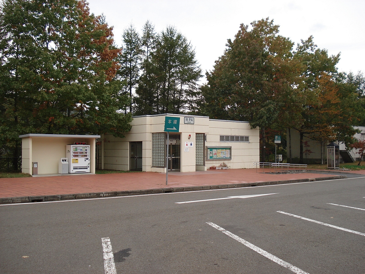 This rest area, Hata Parking Area（for Aomori）, is on Tohoku Expressway, in Hachimantai city, Iwate Prefecture, Japan.